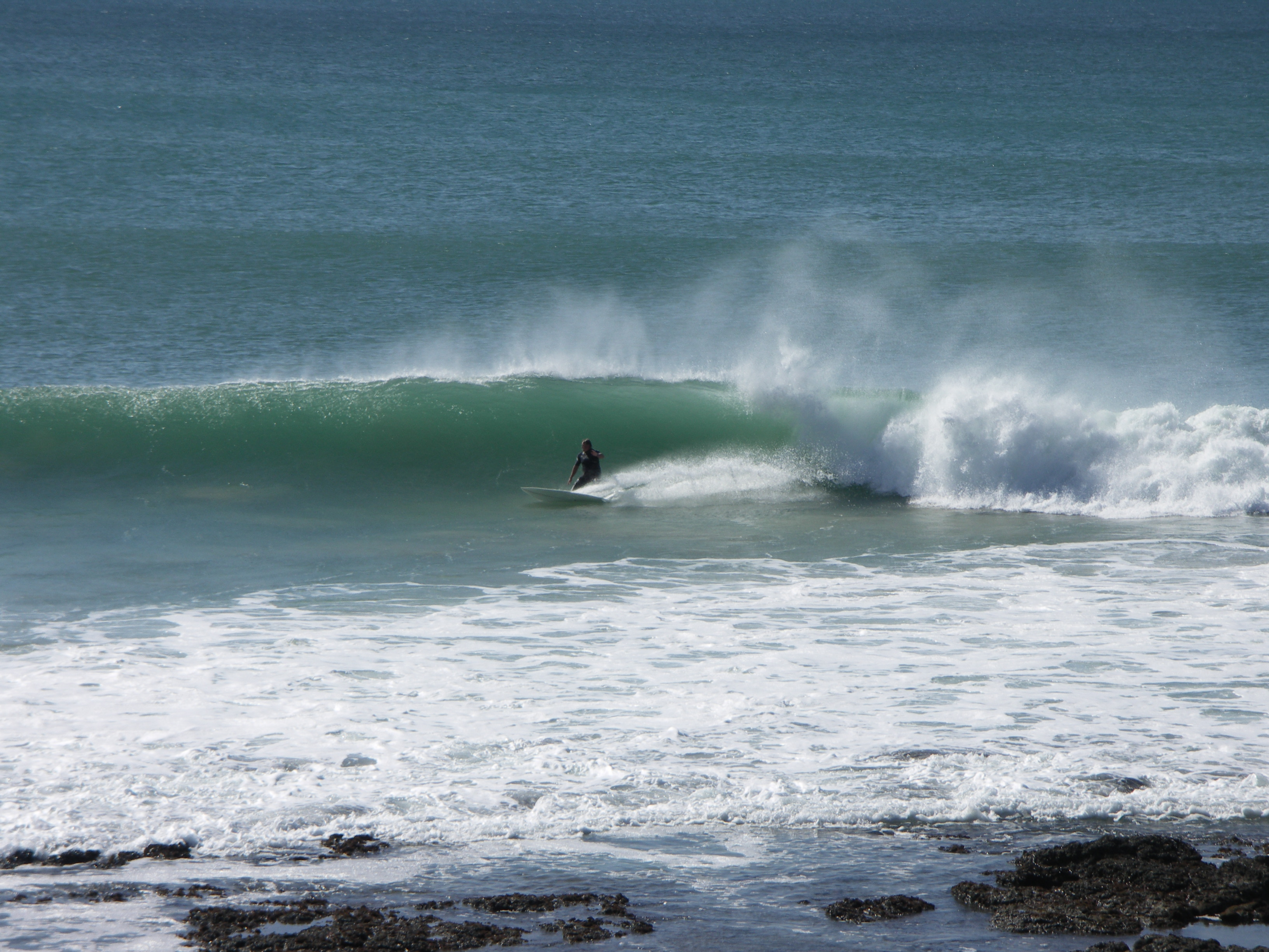 Surfing at Supertubes in Jeffreys Bay, Eastern Cape, South Africa